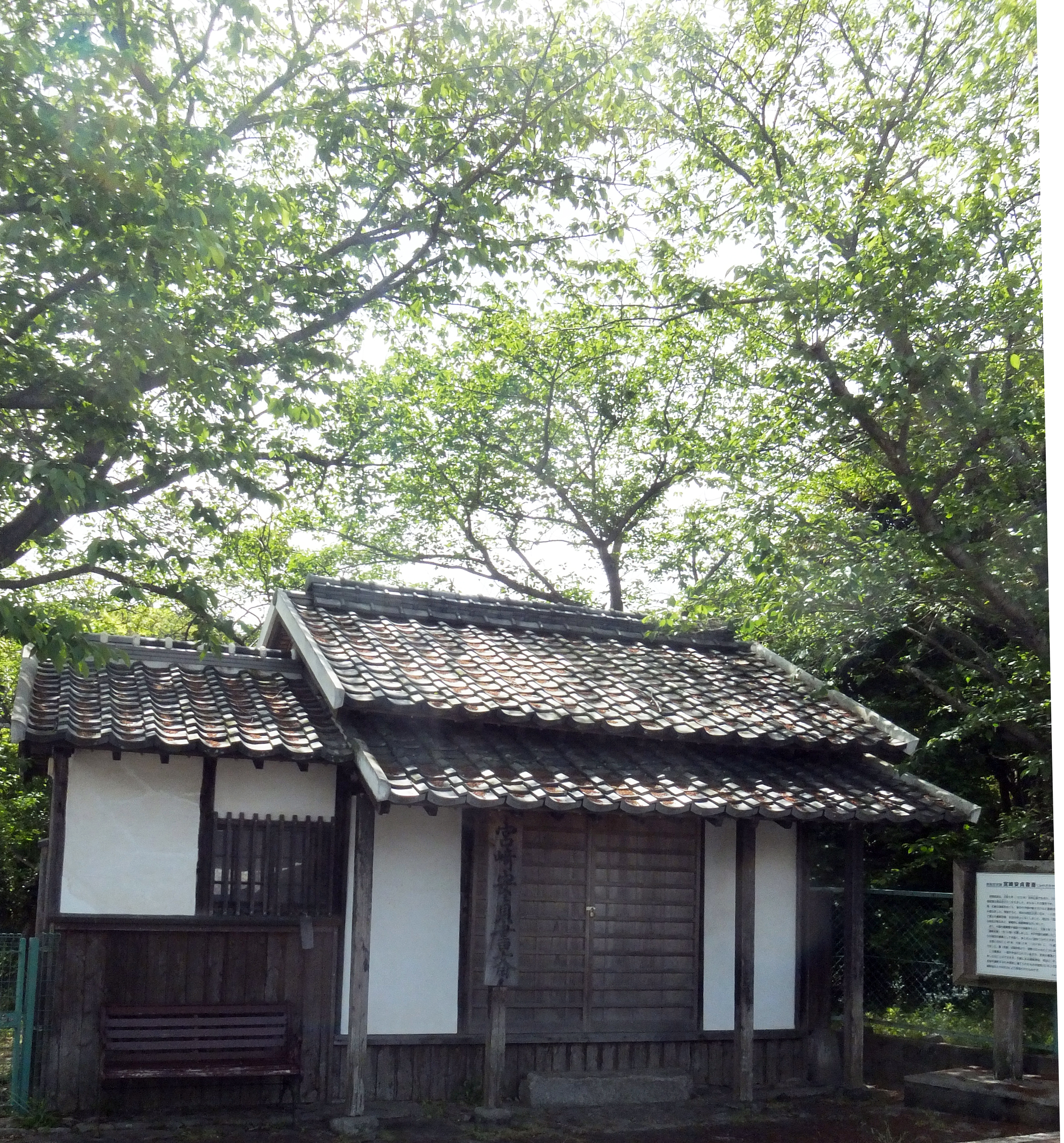 Study of Miyazaki Yasusada (1623-1697) in Myōbaru (Fukuoka-City, Japan), who wrote the first Japanese scientific book on agriculture.